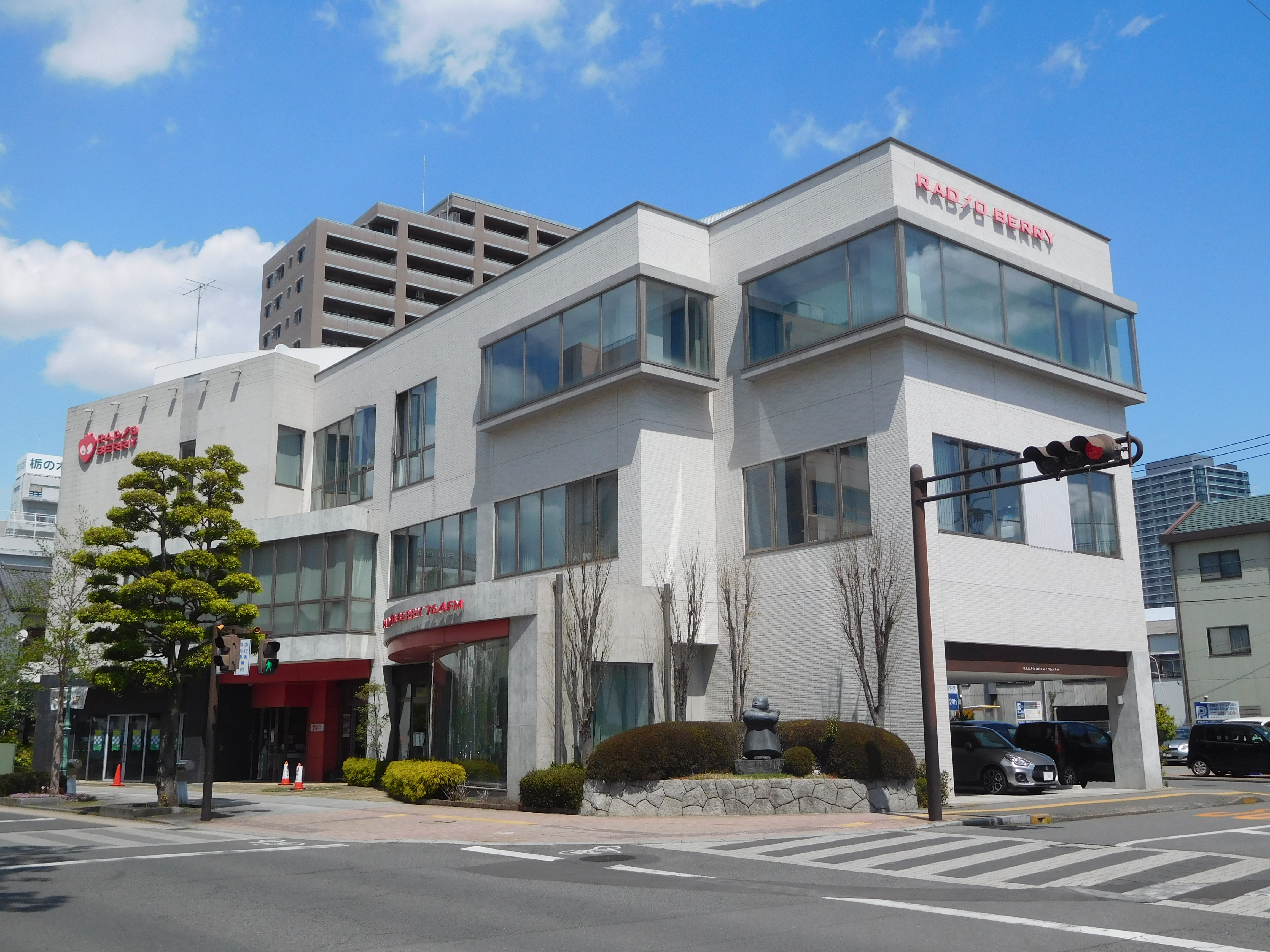 This is the headquarters of RADIO BERRY F.M. Tochigi Broadcasting Co., Ltd. in Utsunomiya, Tochigi, Japan.